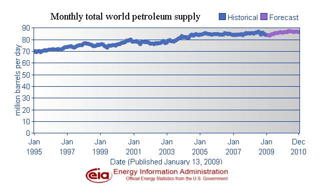 Monthly world petroleum supply, 1995-2010 (1-13-2009 data). Supply includes production of crude oil (including lease condensates), natural gas plant liquids, other liquids, and refinery processing gains.[1] Some image editing done, but not to the data.